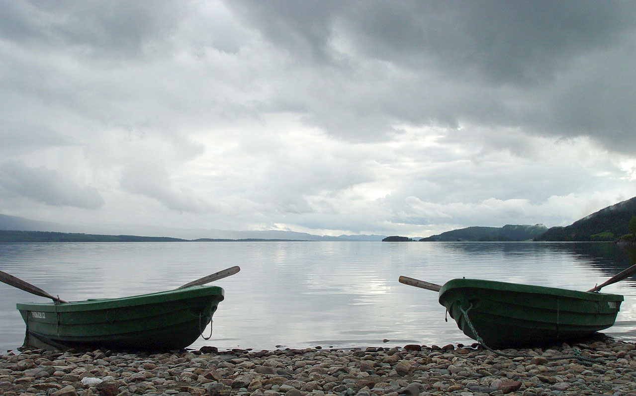 Lake Snåsavatn in Norway before a thunderstorm comes up